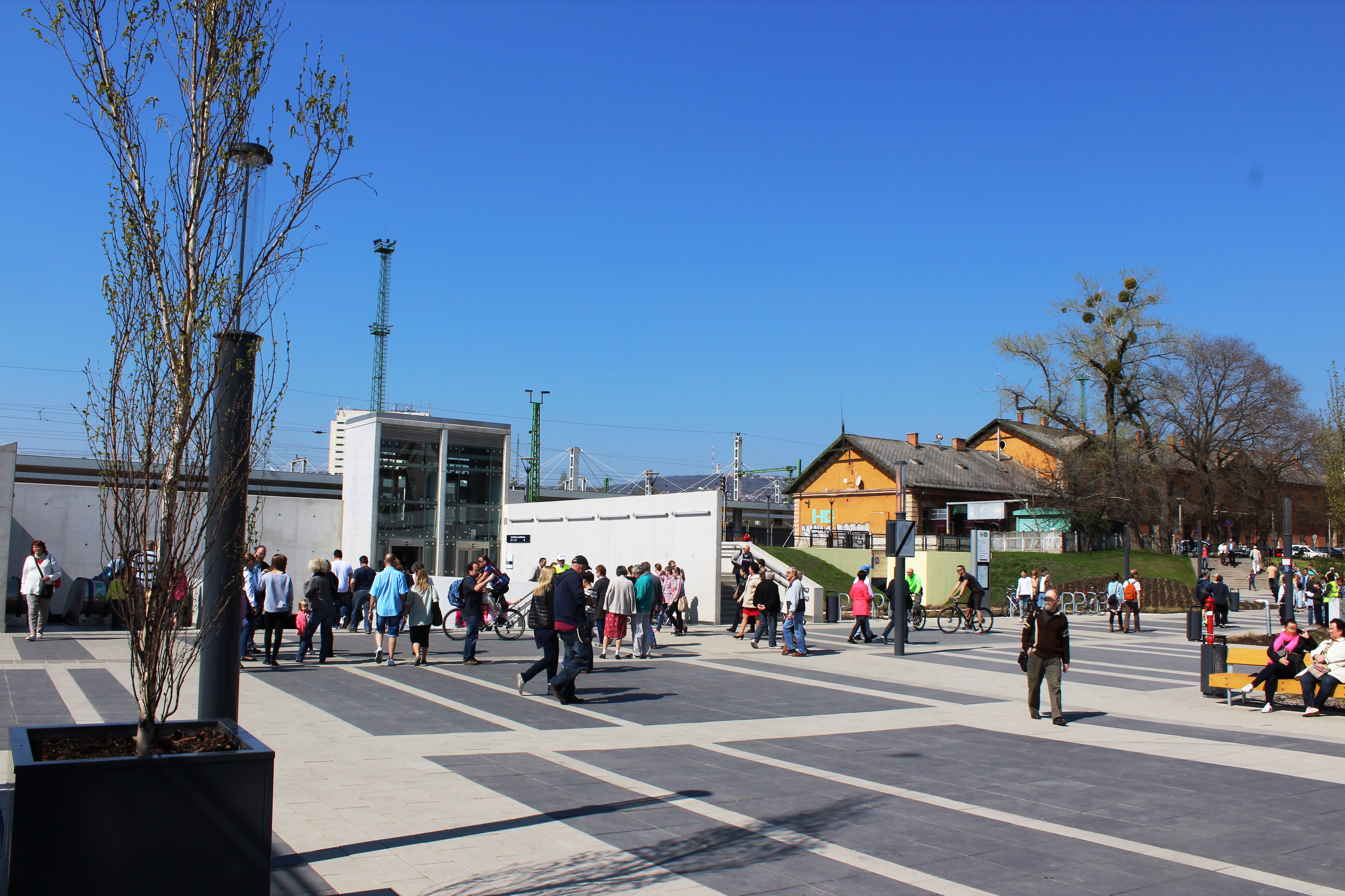 Kelenföld railway station - M4 metro station, Budapest XI. district